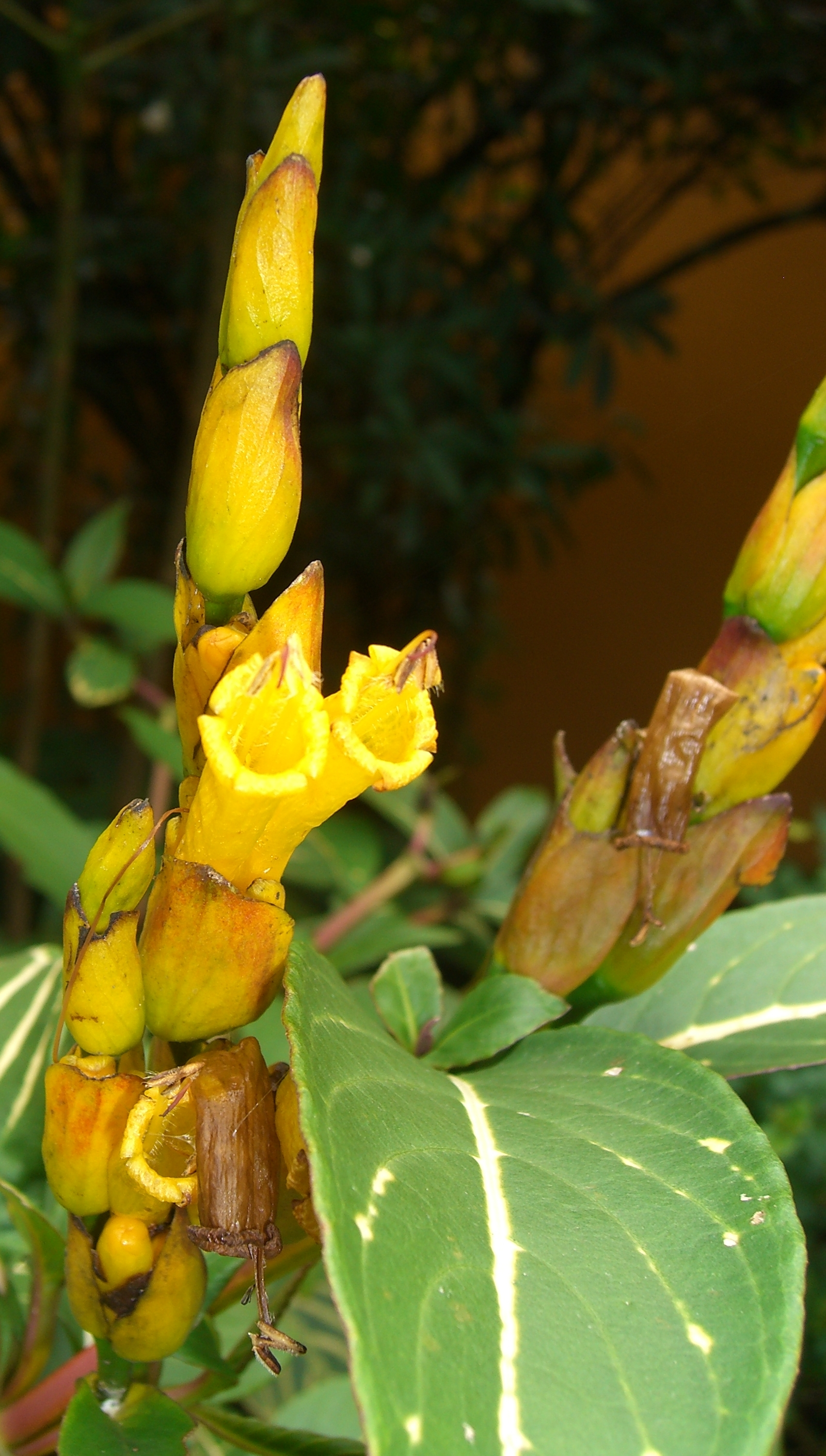 Please report references to .